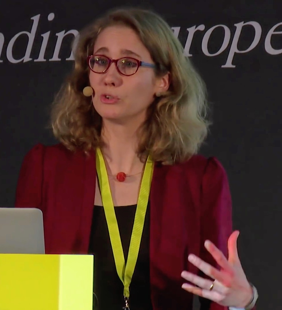 Find out more at: The Internet in China is more than just censorship. Largely unnoticed by most western spectators, Chinese companies have developed innovative digital solutions, providing users with home-grown ecosystems of apps, hardware and services. Chinese netizen create new spaces of identity management, public discourse and civic engagement. These dynamics increasingly shape the pace of global digital innovation. Europe may find itself in a position to choose between a Chinese and an American version of the Internet. Hauke Gierow Kristin Shi-Kupfer Creative Commons Attribution-ShareAlike 3.0 Germany (CC BY-SA 3.0 DE)